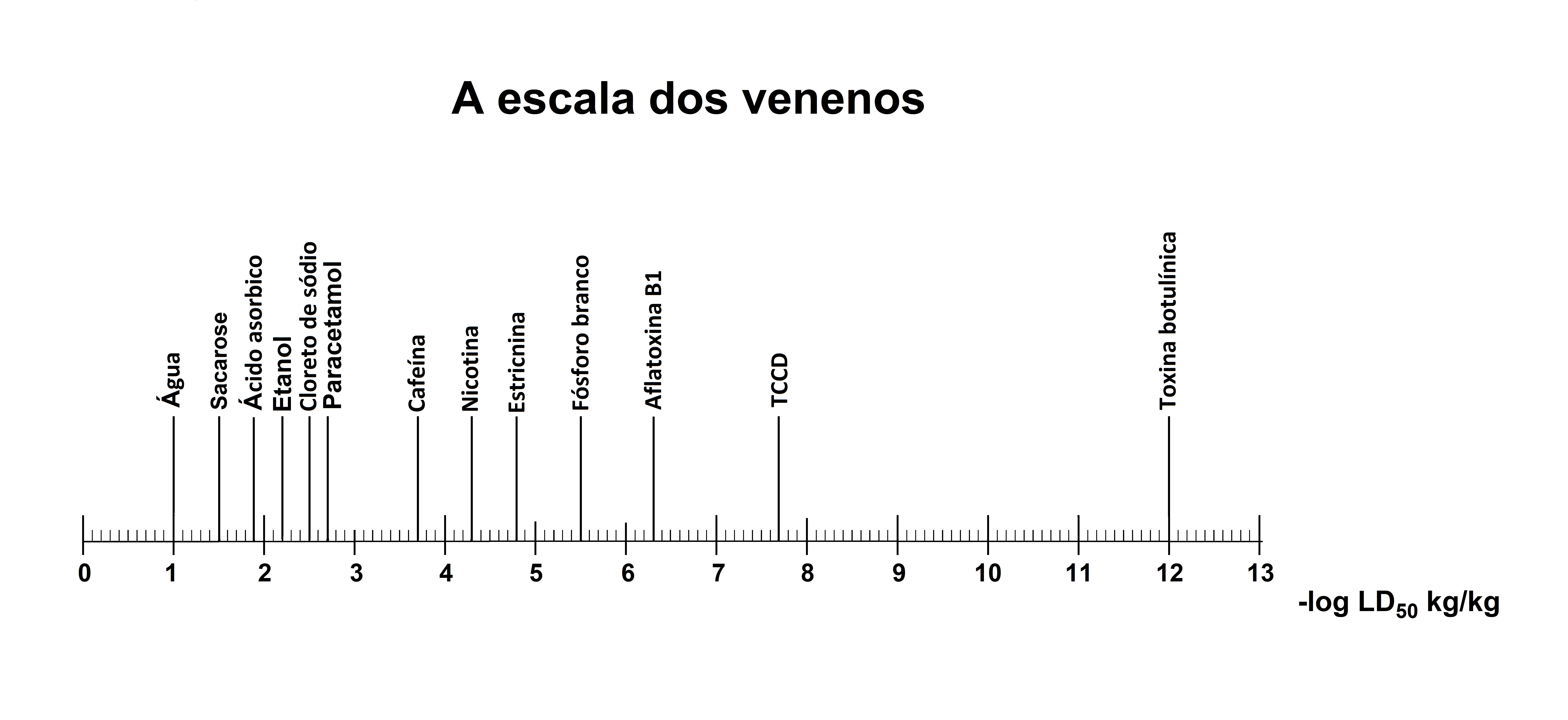 scale gives simplification of lethale dose